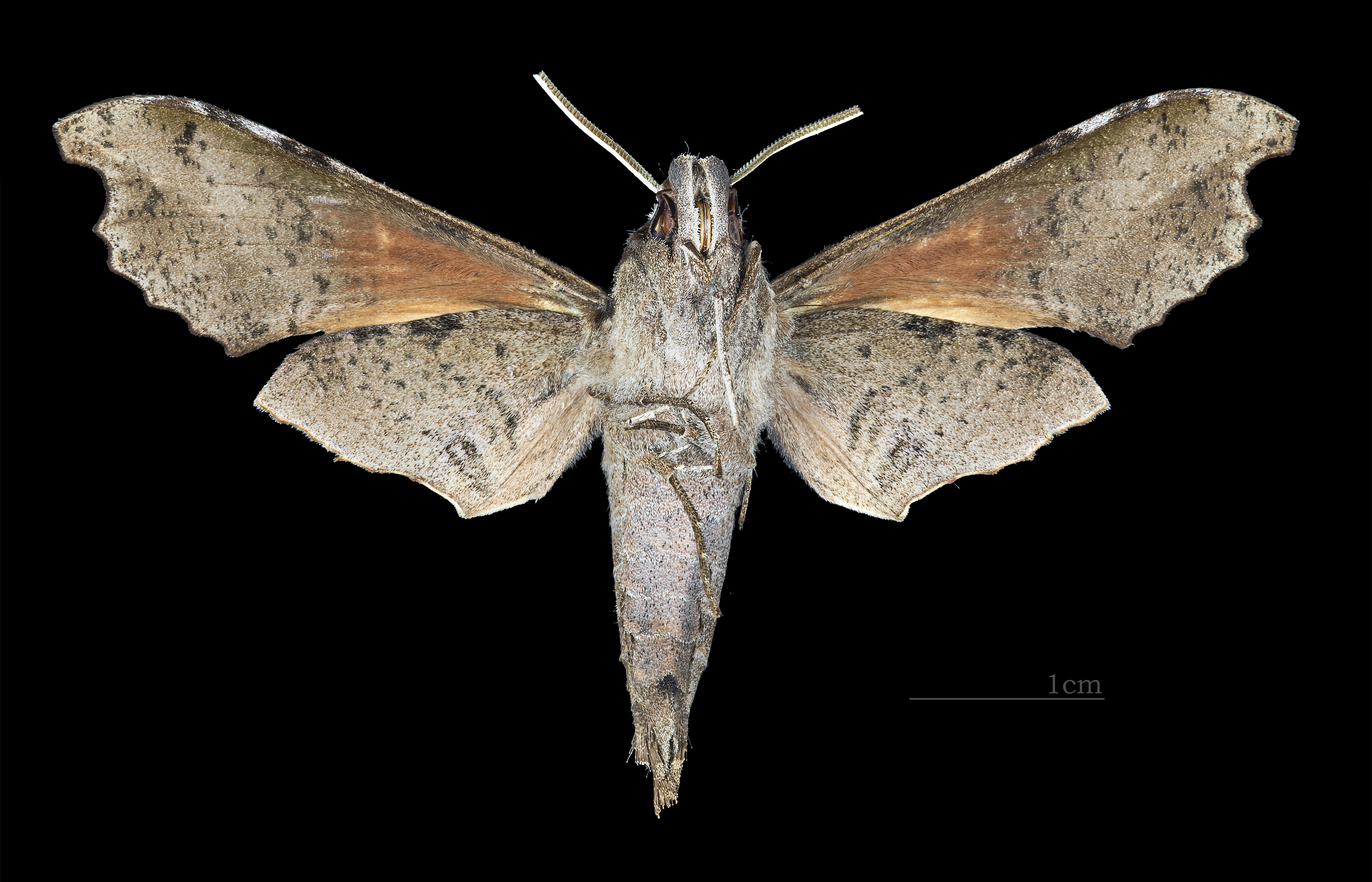 Callionima denticulata - △ Ventral side Collection of the Mathematician Laurent Schwartz